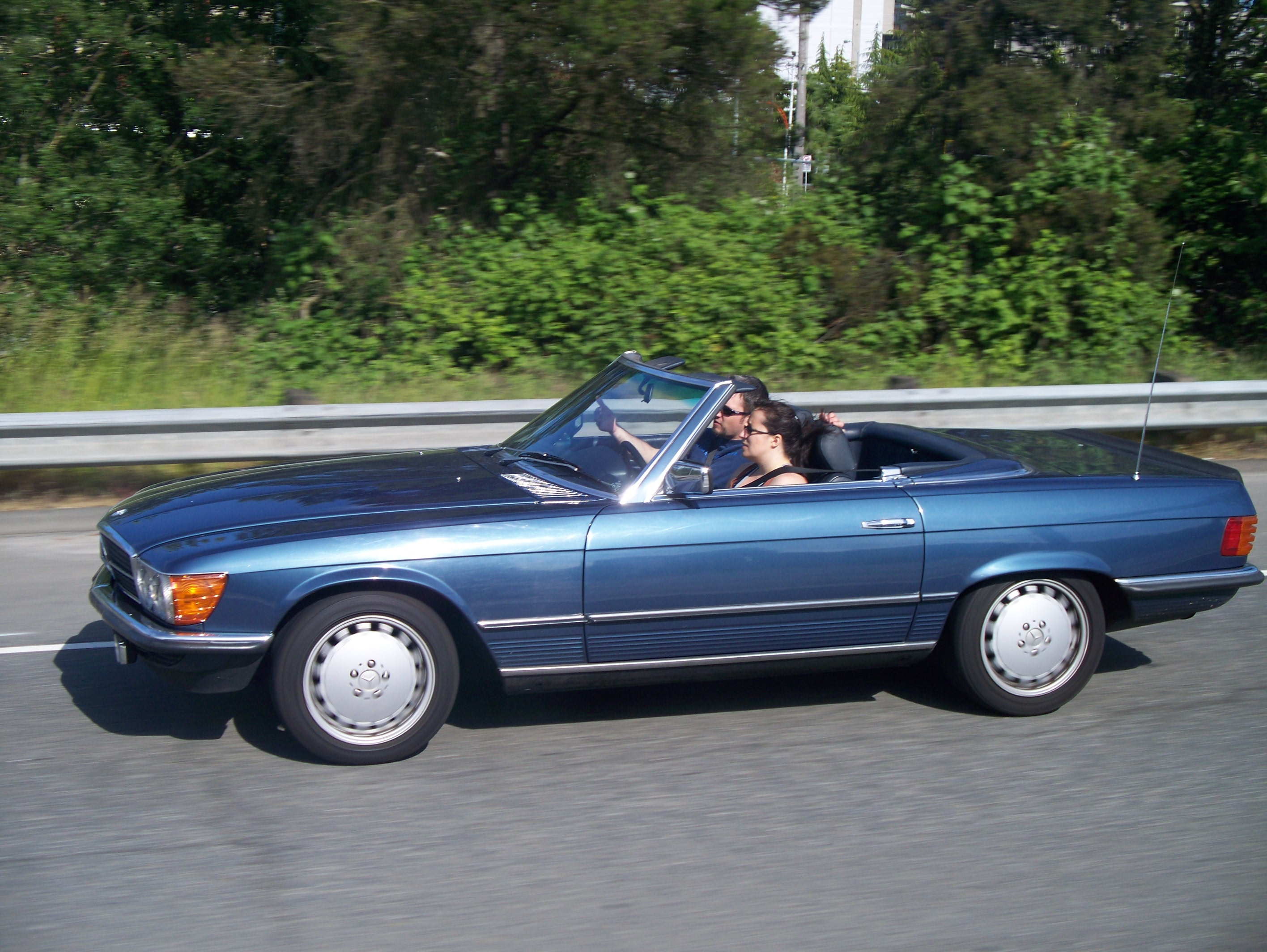 A convertible Mercedes Car Driving On A Highway in Washington State.